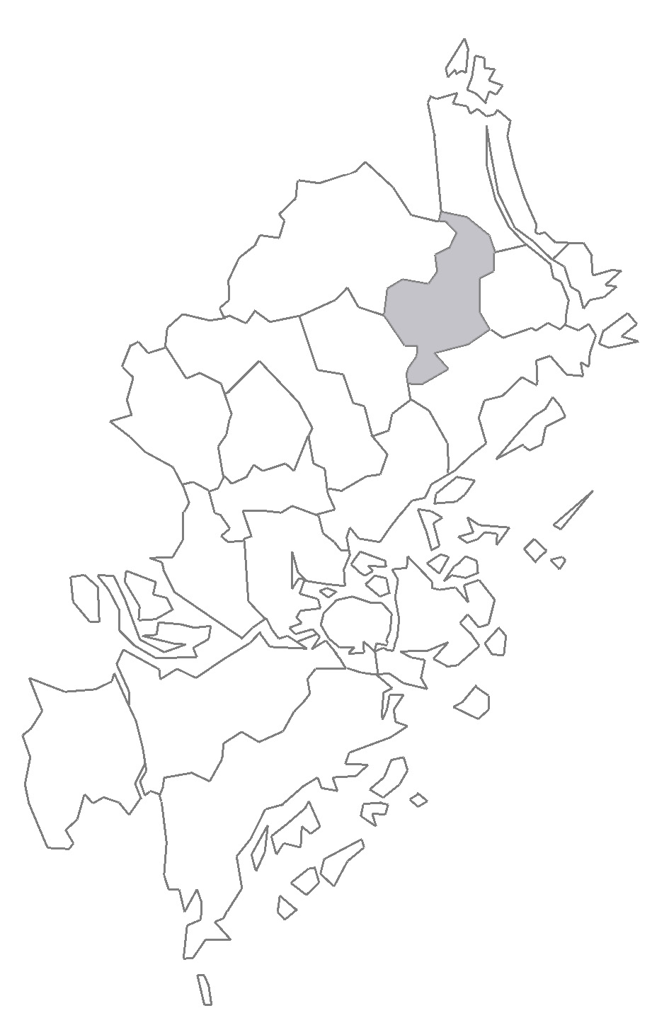 Map describing the location of Ly Hundred in Stockholm County, Sweden.